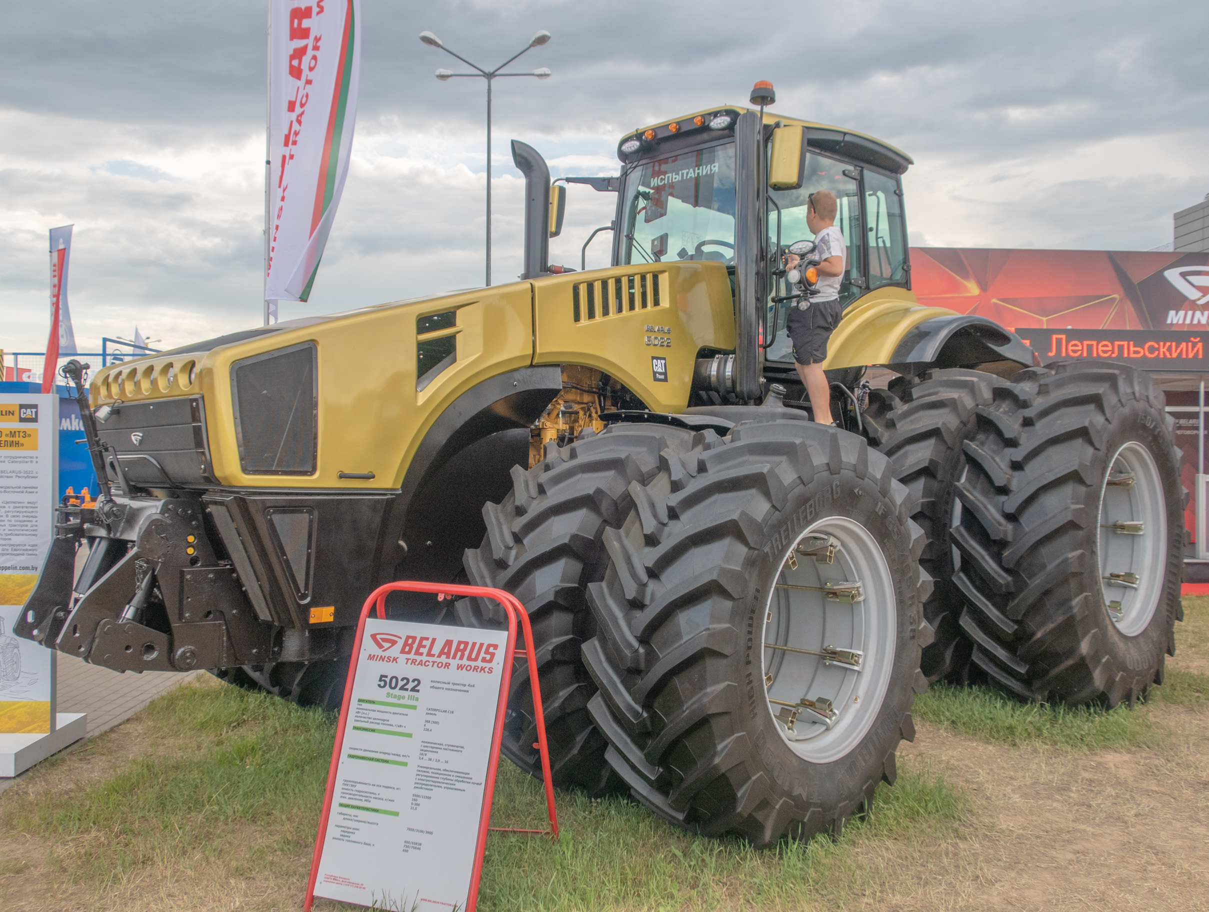 Belarus MTZ-5022. Photo taken at Belagro-2019 exhibition (Minsk district, Belarus)